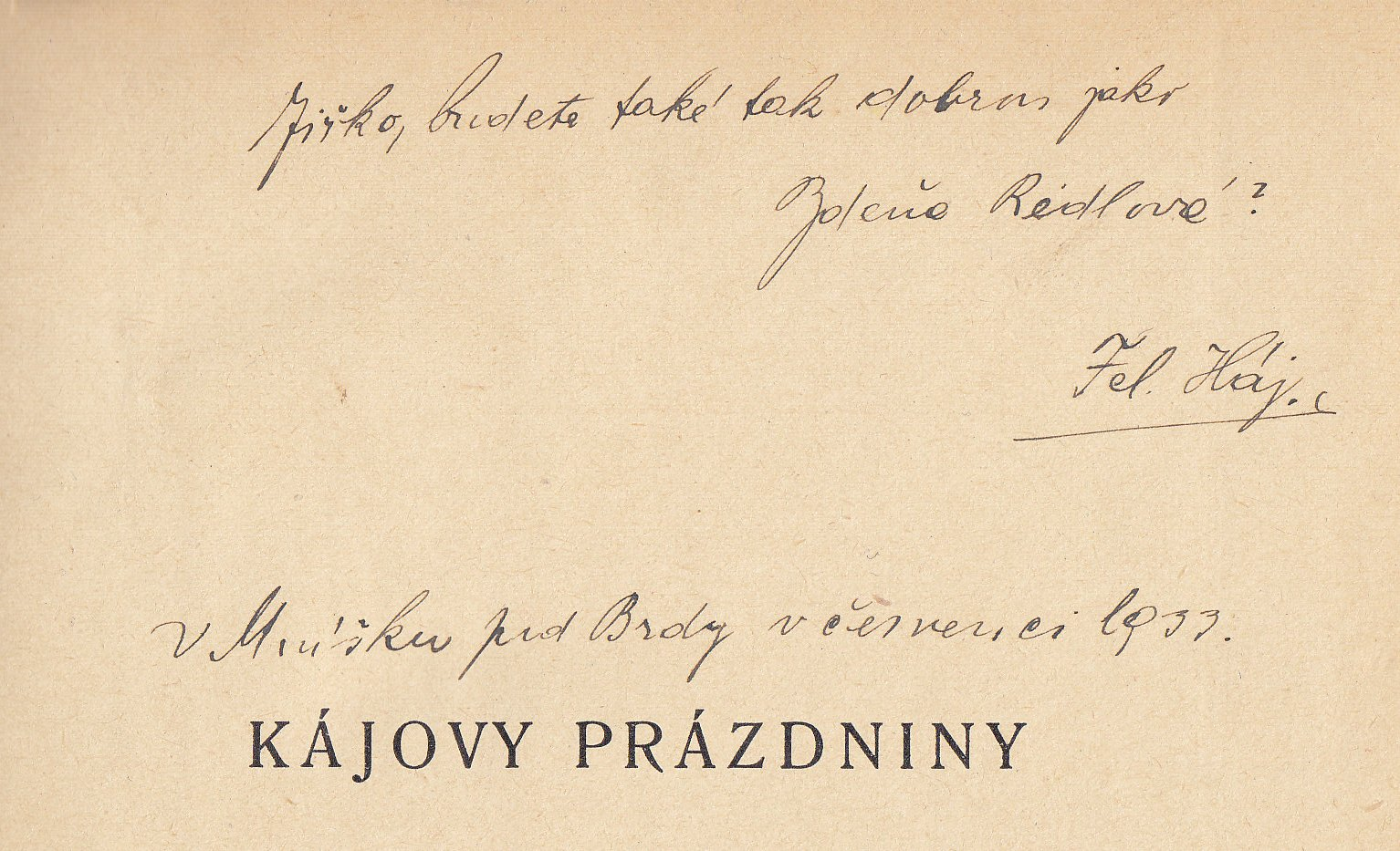 Dedication written by Czech writer Felix Háj